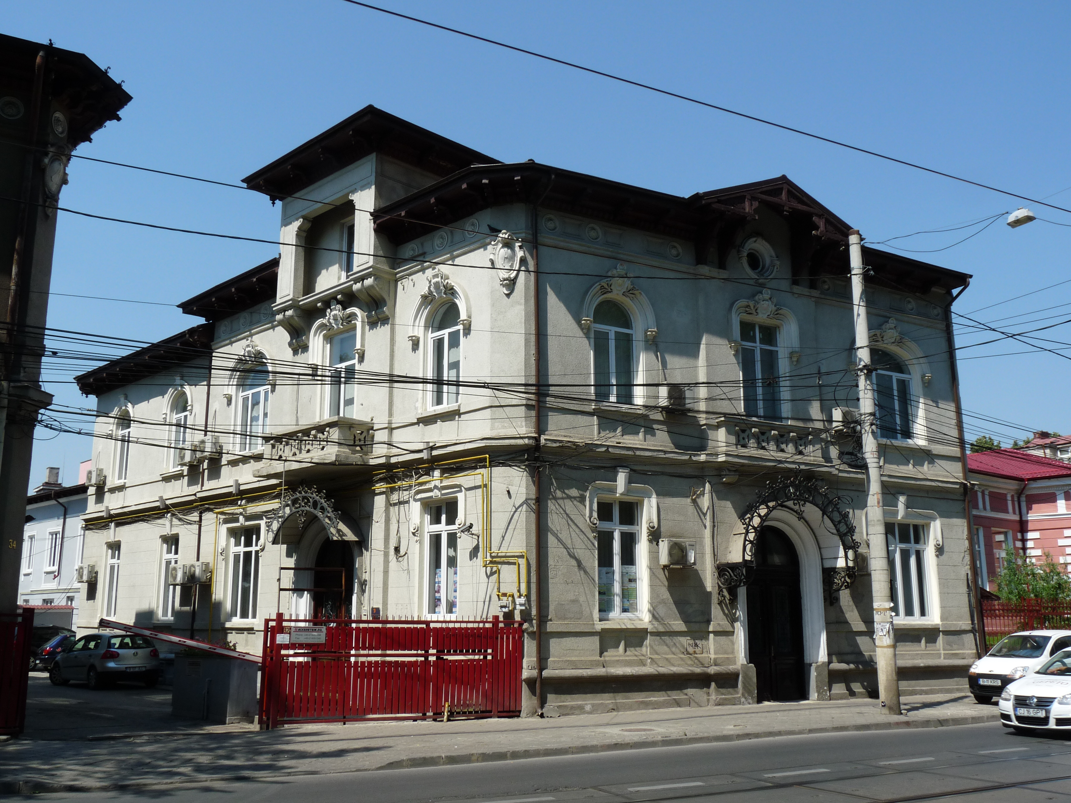 Historic building in Bucharest, Romania, on Regina Maria boulevard 32Română: Clădire istorică din Bucureşti, România, pe bulevardul Regina Maria 32